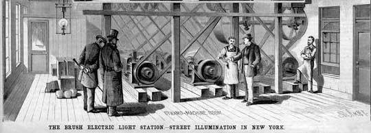 Brush Electric Company's New York central power plant's dynamo room which powered arc lamps for public lighting, 1880. Engraving from the cover of Scientific American April 2, 1881 issue depicts Charles F. Brush dynamos. Belts delivered power from the reciprocating steam engines in a lower floor. Beginning operation in December 20, 1880 at 133 and 135 West Twenty-Fifth Street, it powered a 2 mile long circuit consisting of 15 arc lights strung along Broadway from 14th to 26th street. Two weeks later, the line extended to 34th street. Each light had a shunt so that if a light exhibited high resistance, the shunt would close and current would continue to other lights on the line. source Each generator produced 10,000 volts. source